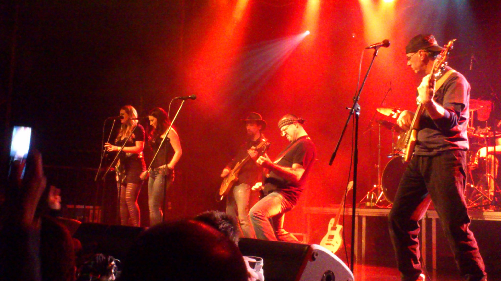 Quicksand (Živo Blato) live in Tvornica, Zagreb, Croatia (26.01.2013) General Vasilij Mitu, Mr. Rabbit, Veseli Sir, Nazifa Gljiva, Trudna Tableta, Ivan Špeljak Jitz